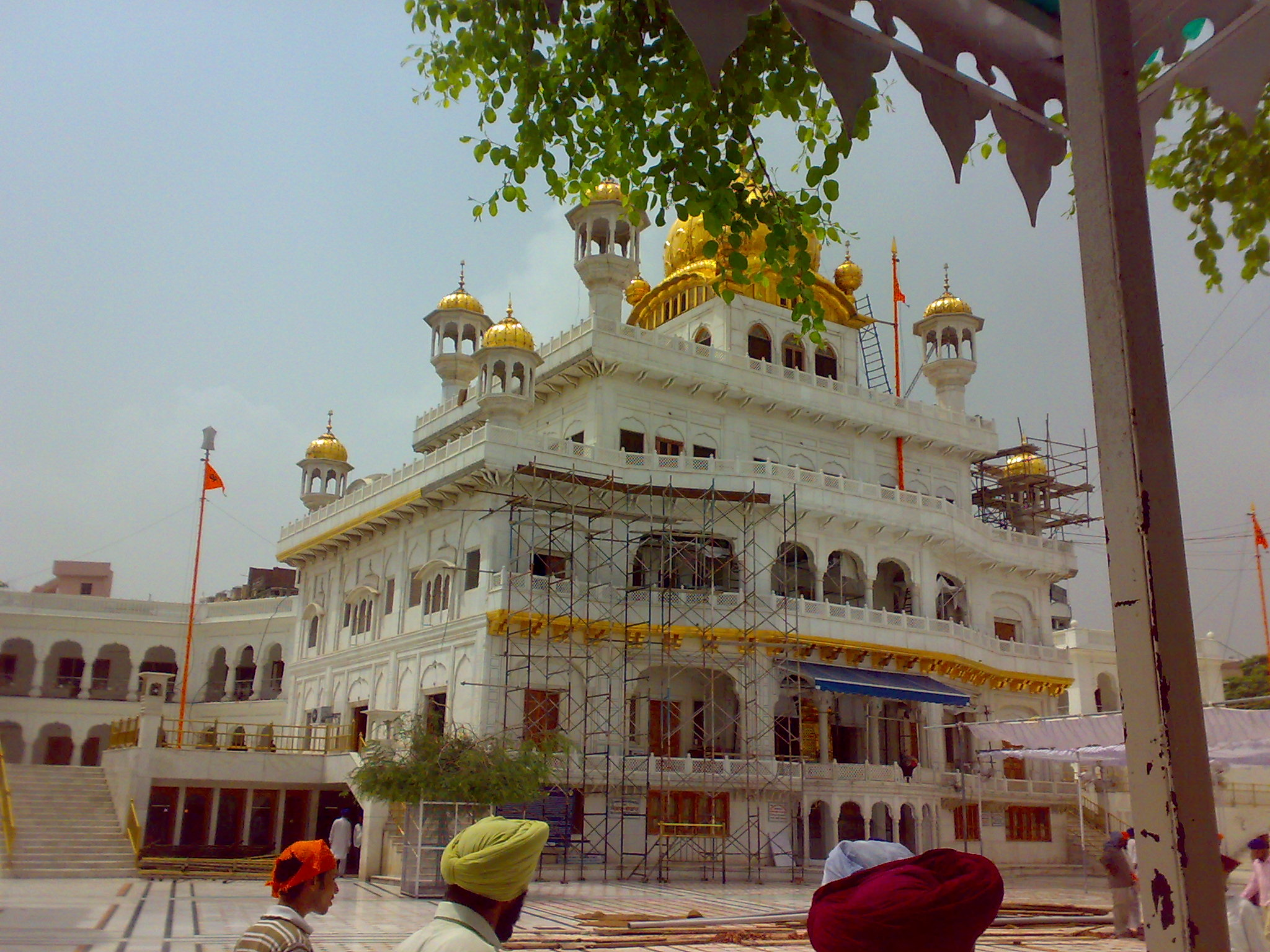 Akal Takht as it stands today.